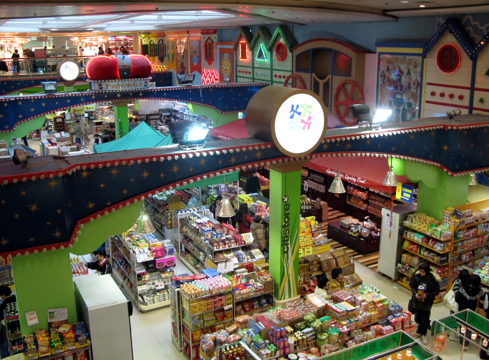 Sunshine City Plaza Citistore Void